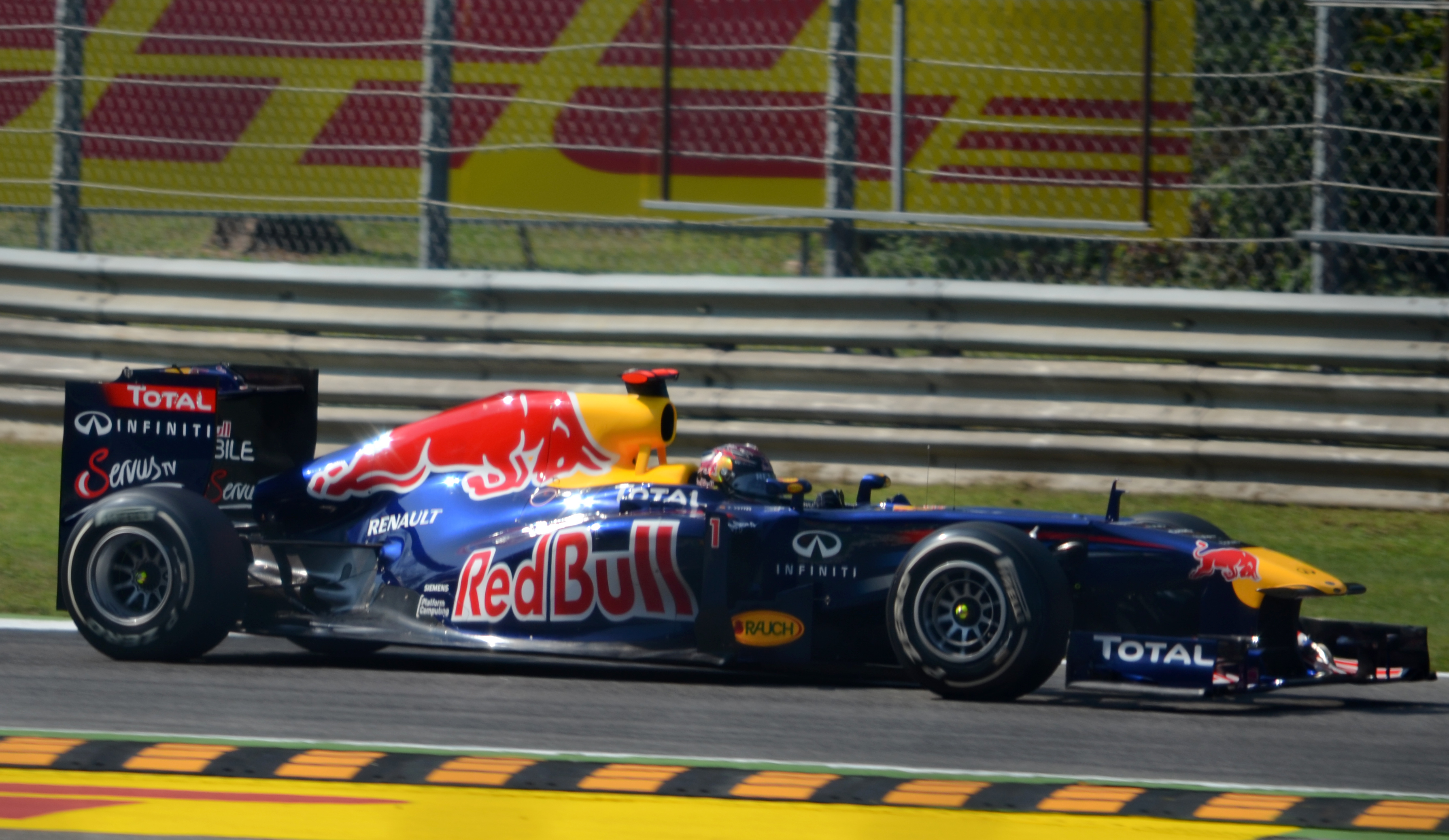 Sebastian Vettel in the Red Bull Renault RB7 at the Roggia Chicane during second practice for the 2011 Italian Grand Prix.